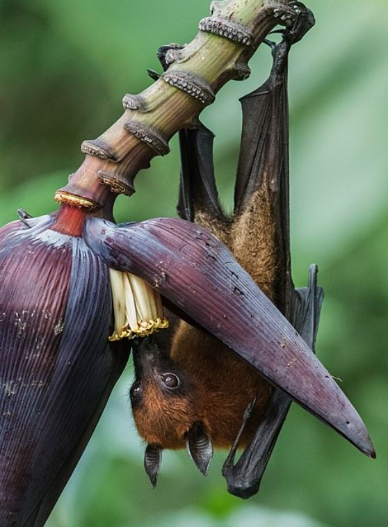 Photograph of an Indian flying fox, Pteropus giganteus